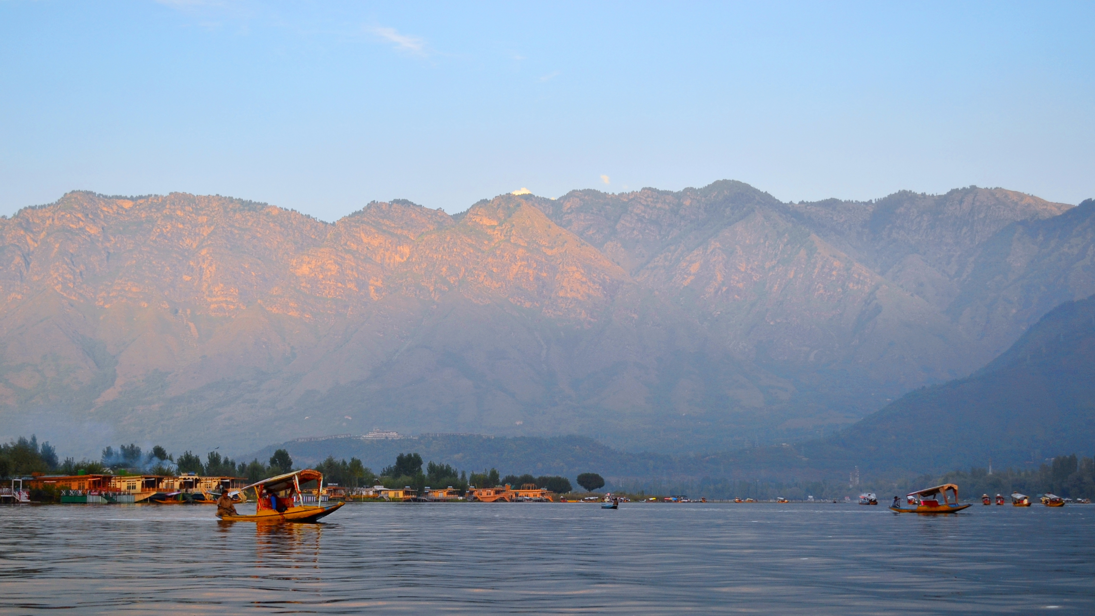 Dal Lake in Srinagar Kashmir